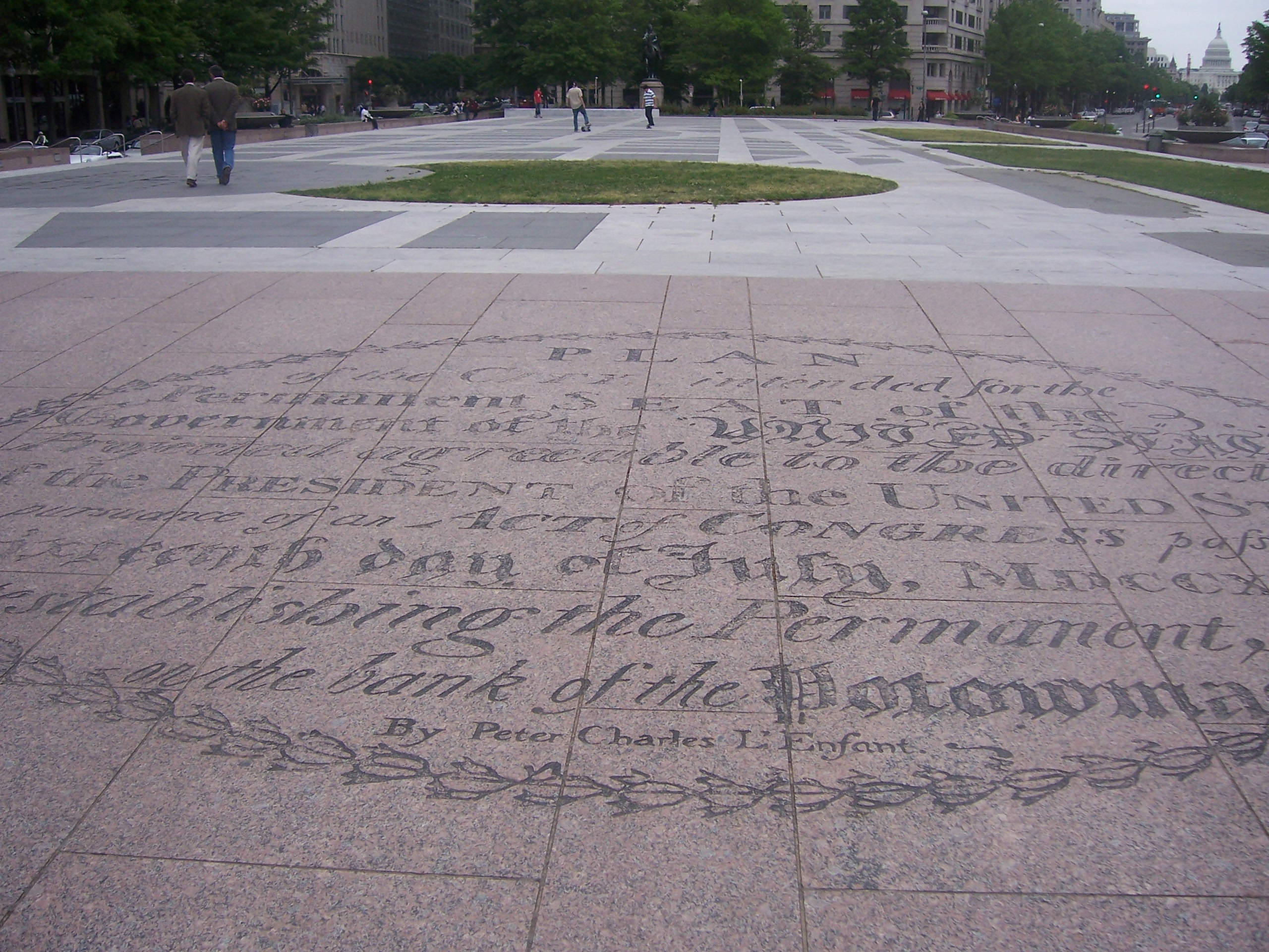 Text in oval near the west end of Freedom Plaza. The oval contains the title legend of L'Enfant's original plan for the City of Washington. The title legend identifies the plan's author as "Peter Charles L'Enfant".